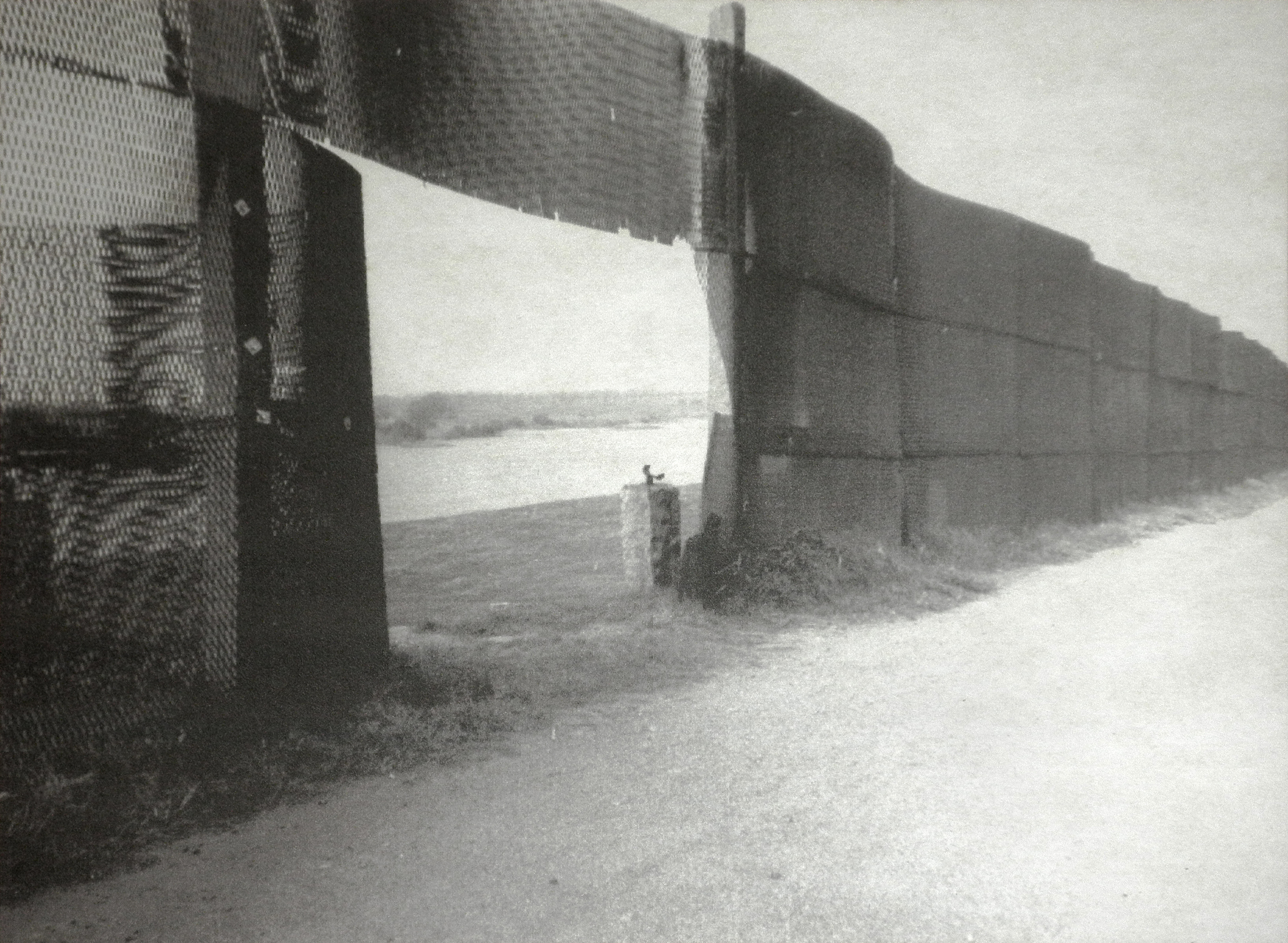 Border Fence near Dömitz (before 1990) in Mecklenburg-Vorpommern